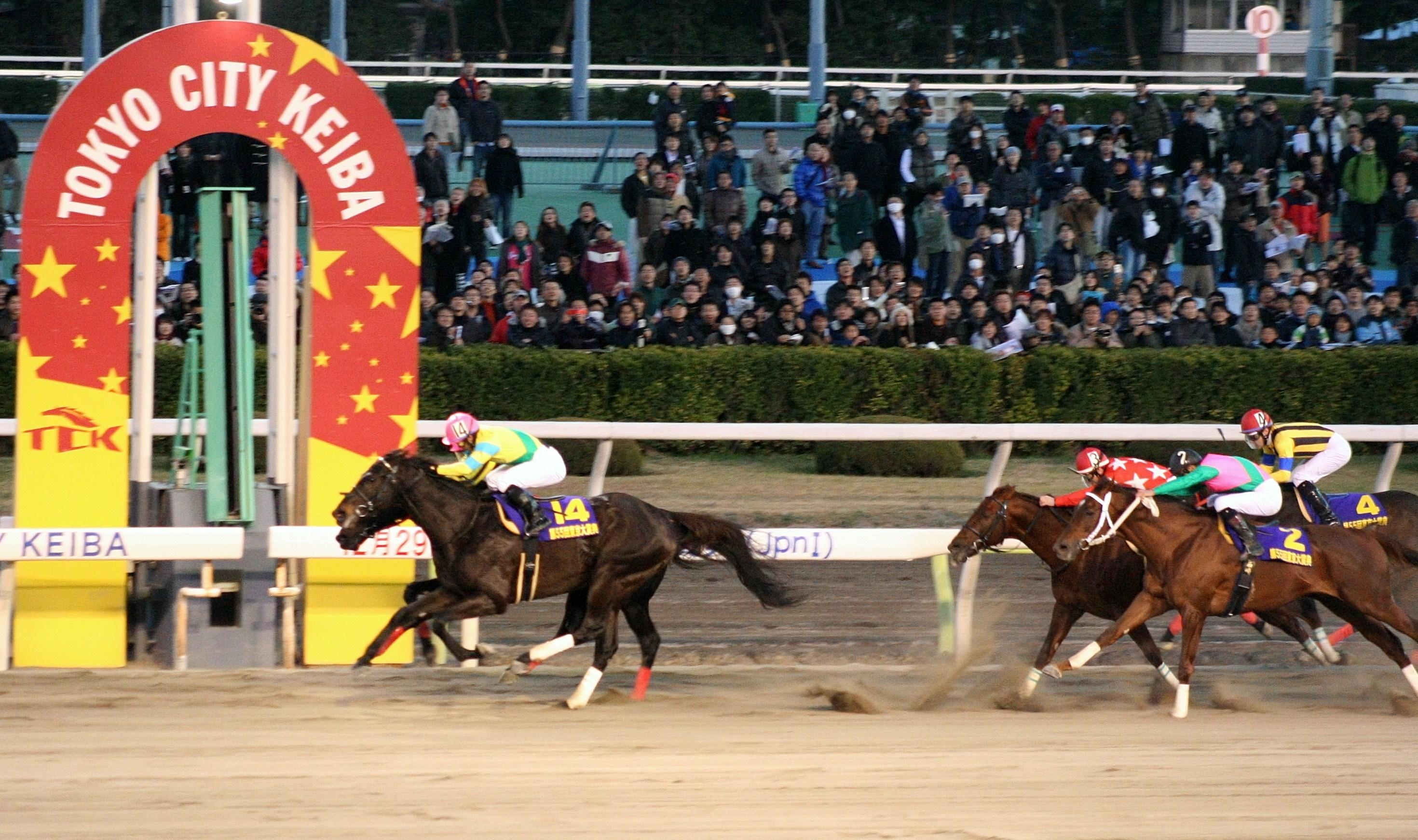 第55回Tokyo Daishōten（Ohi Racecourse）